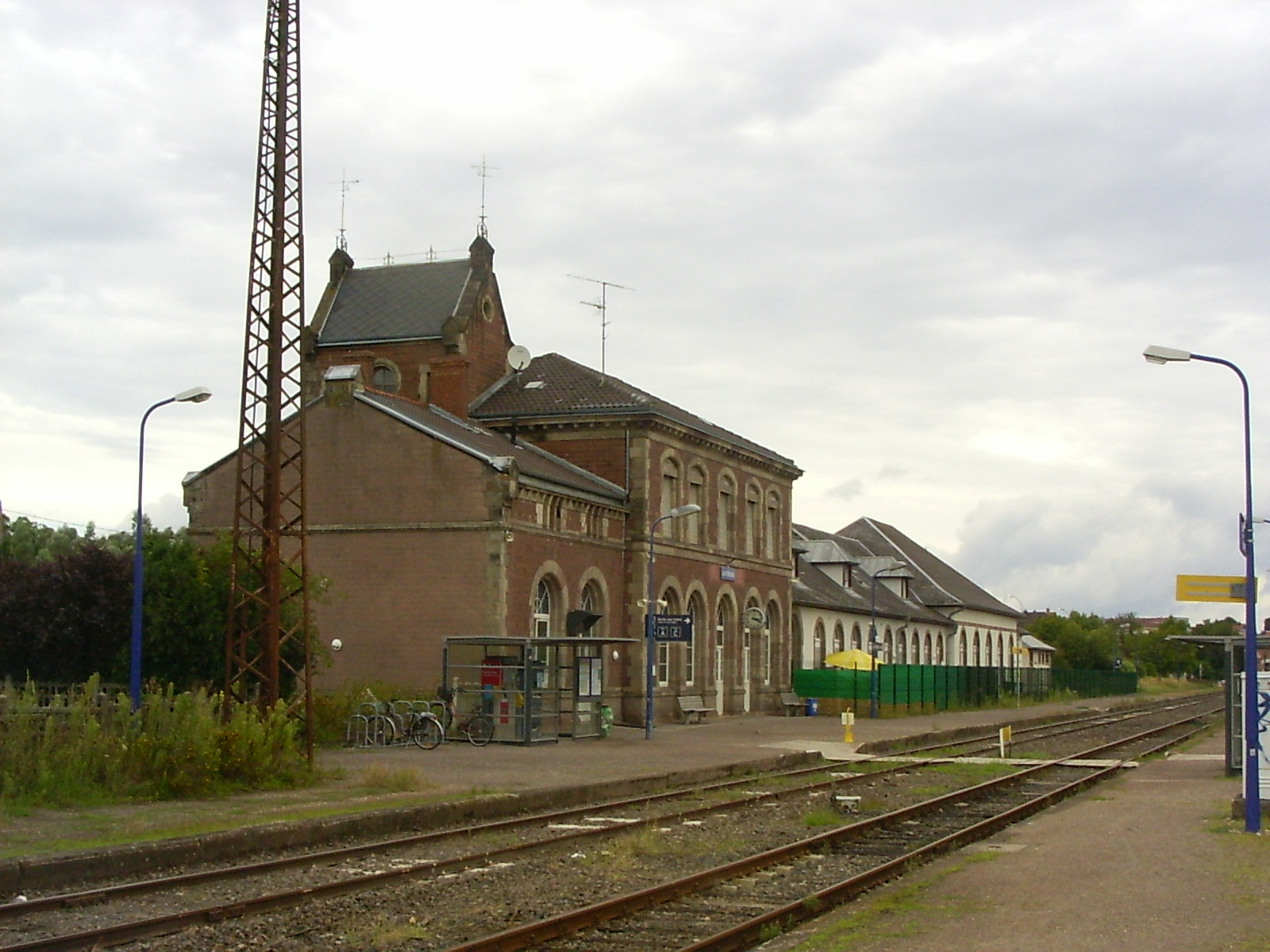 Lauterbourg train station, trackside